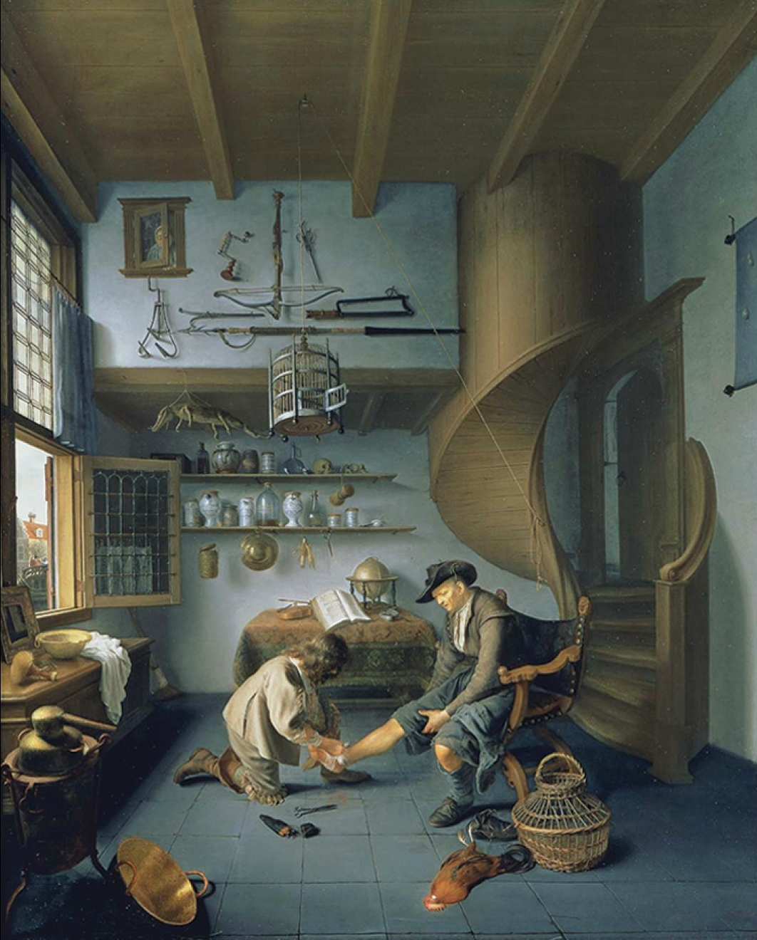 Barber surgeon tending a peasant's footlabel QS:Len,"Barber surgeon tending a peasant's foot" label QS:Lfr,"Un chirurgien barbier soigne le pied d'un paysan"